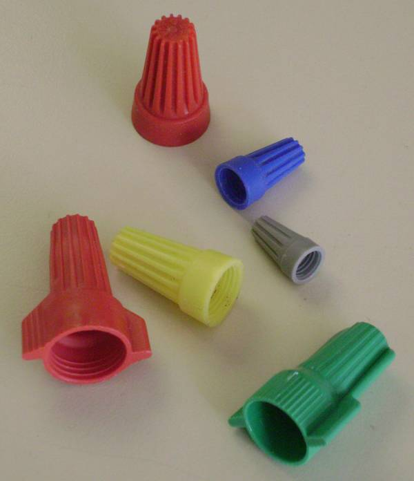 An illustration of wire nuts